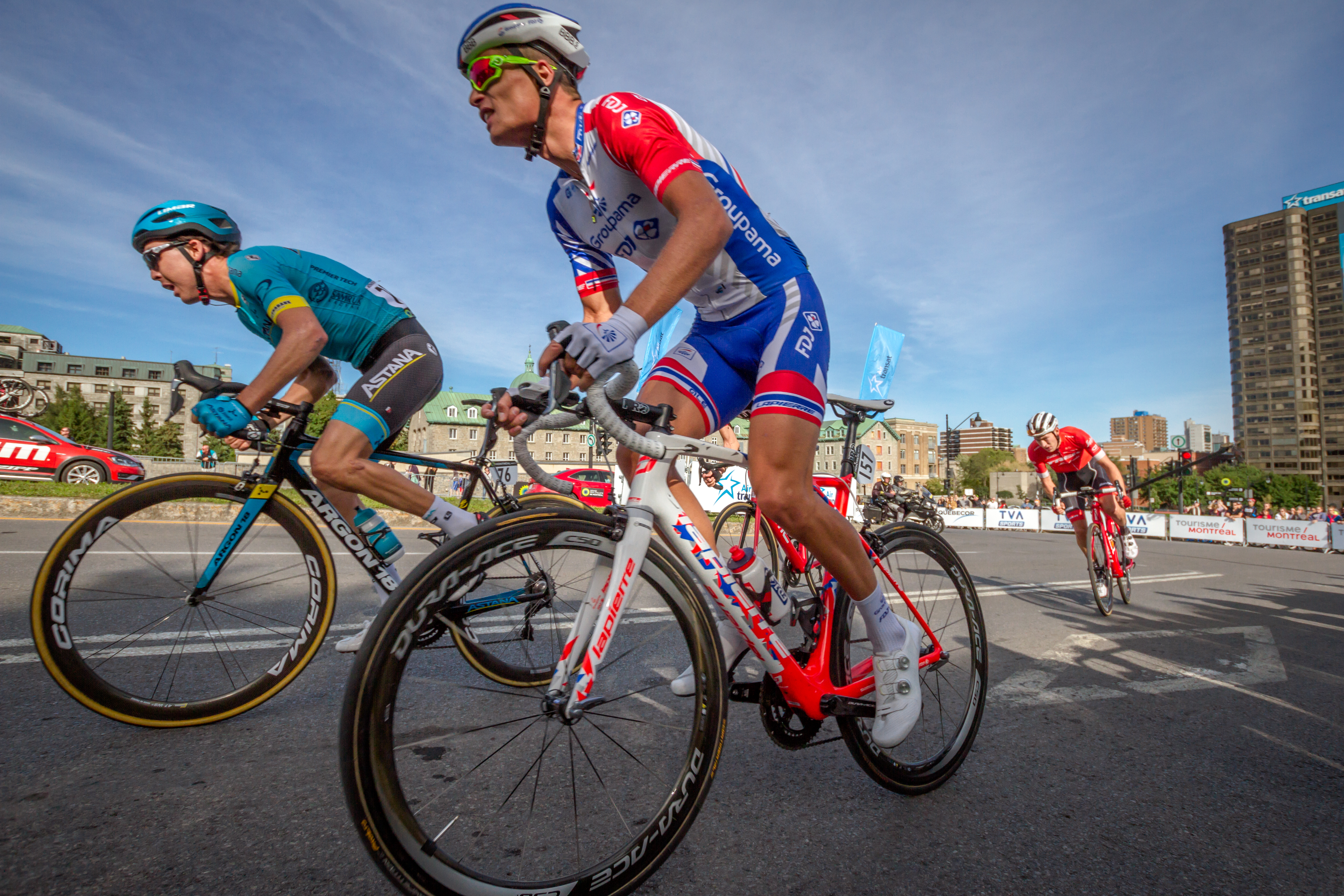 Bakhtiyar Kozhatayev (KAZ) Astana & Arthur Vichot (FRA) Grou. GPCQM - Grand Prix Cyclistes de Montreal et Quebec. Montreal 2018.